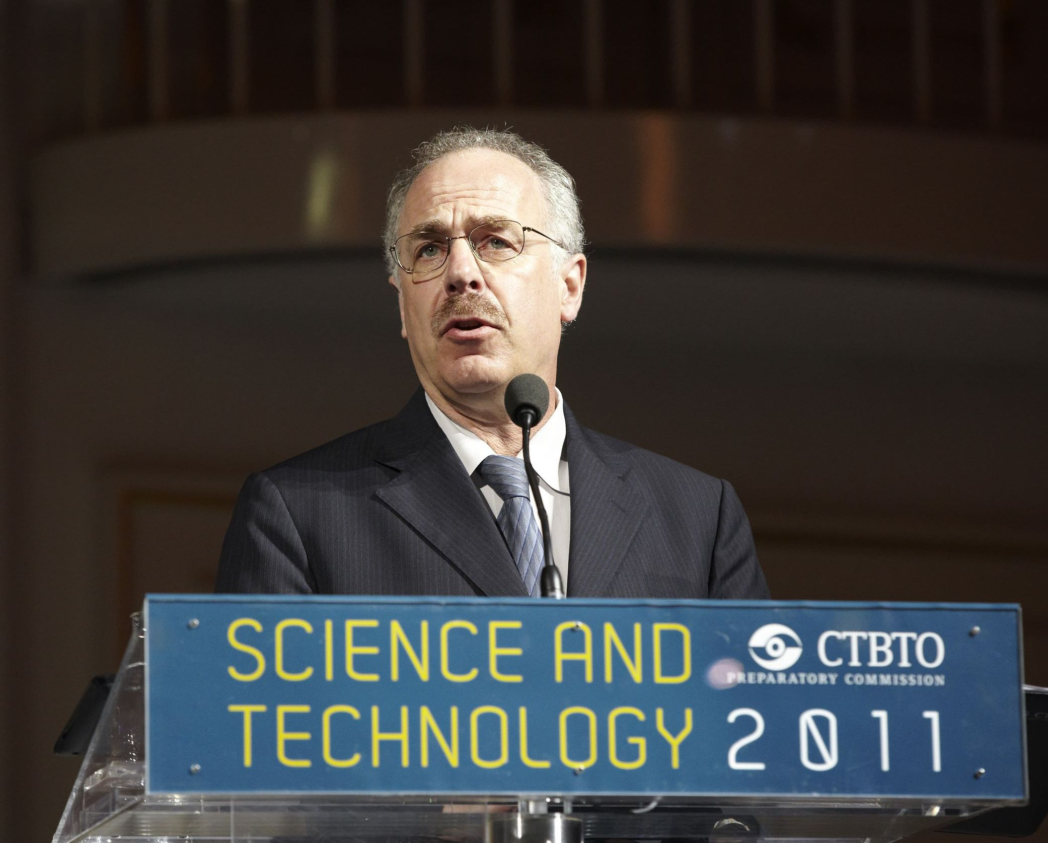 8 June 2011 - Vienna Raymond Jeanloz at the Science and Technology conference 2011. Copyright CTBTO Preparatory Commission Photographer: Marianne Weiss